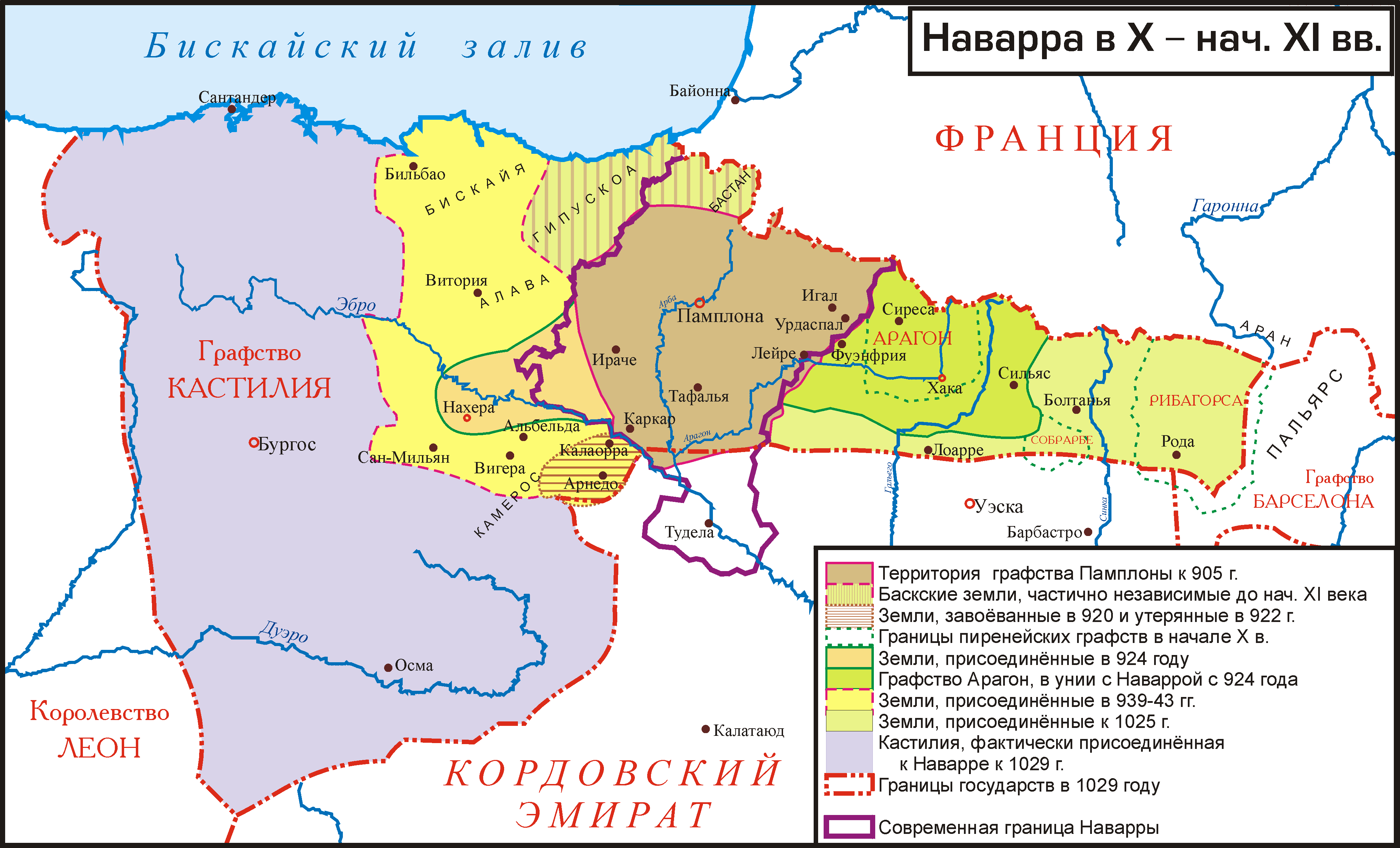 Navarre in 10-early 11 centuries